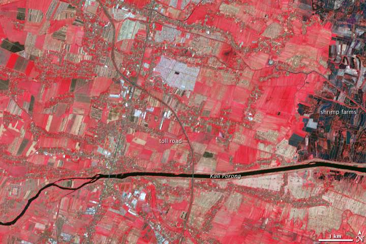 Image prior to Sidoarjo Mud Flow, Indonesia